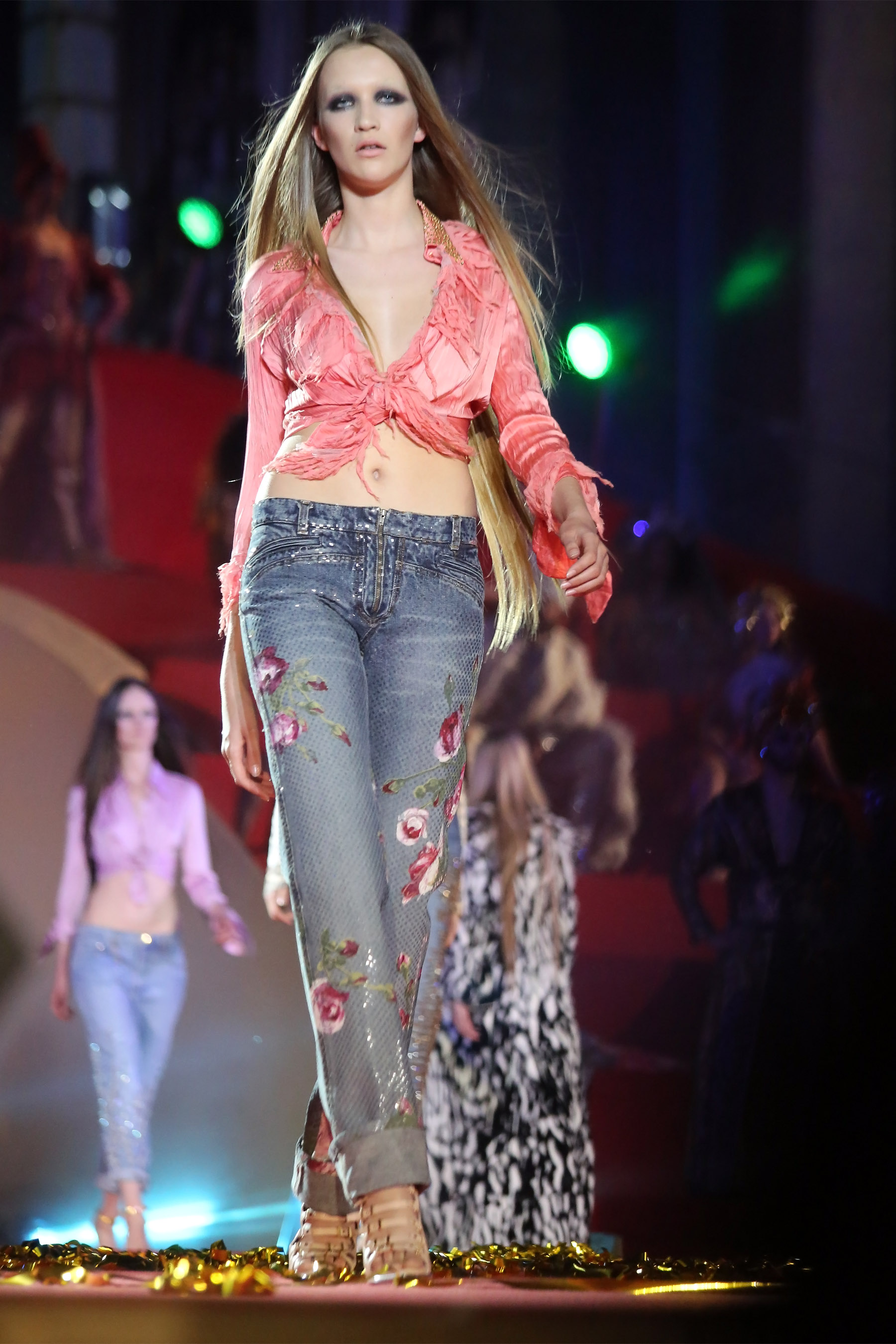 Fashion show by Roberto Cavalli, opening of Life Ball 2013 at the city hall of Vienna, Vienna, Austria.